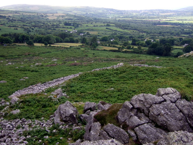 Carn Ffoi hillfort, western section Seen here are the remains of the enclosure than ran around the slope below the three rocky outcrops that on the perimeter of the fortified site. In the distance, the hill slope country drops down towards the coast.